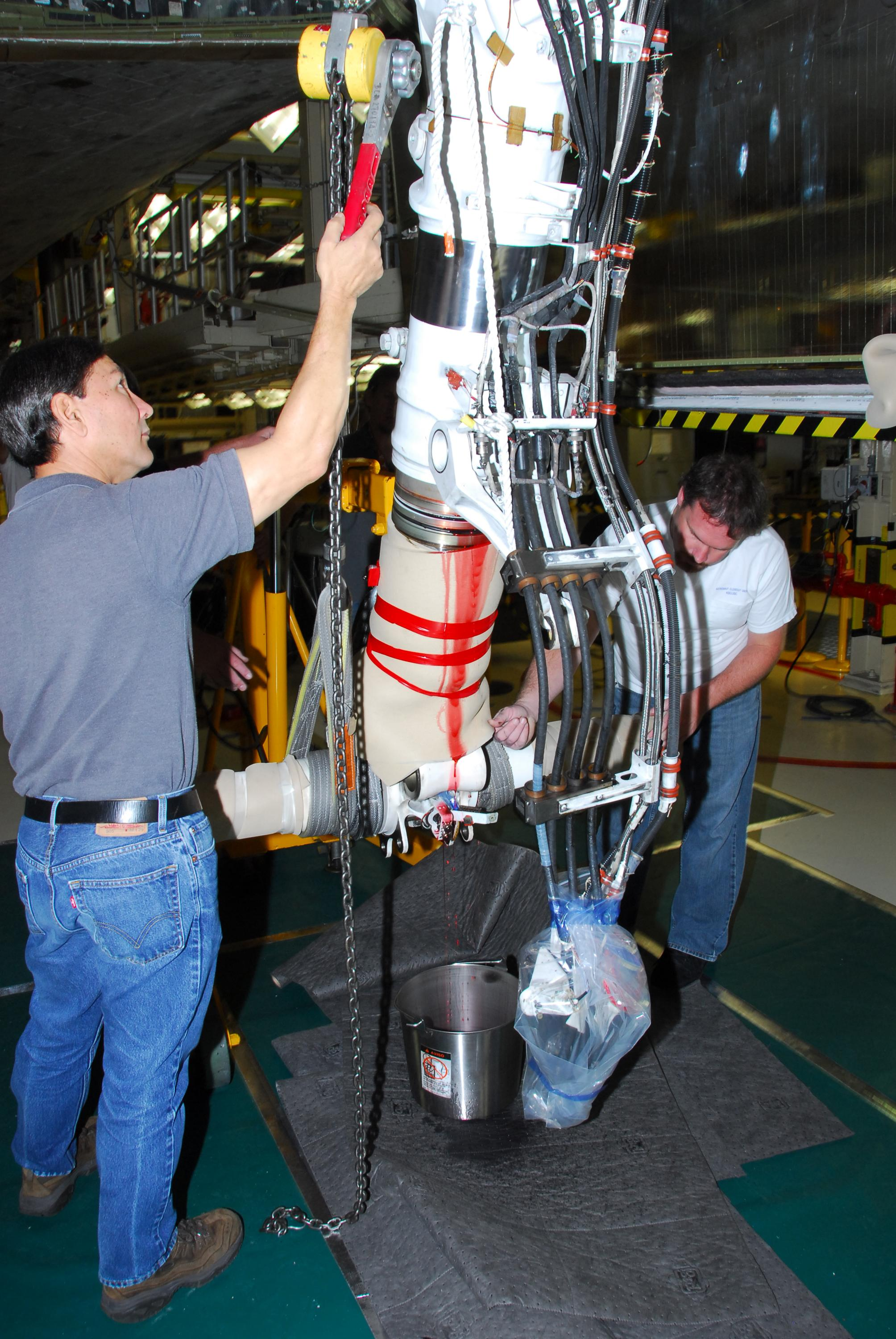 In Orbiter Processing Facility, United Space Alliance and B.F. Goodrich technicians begin work on the starboard landing gear assembly of space shuttle Discovery. They will replace a leaking dynamic seal in Discovery's right main-gear strut